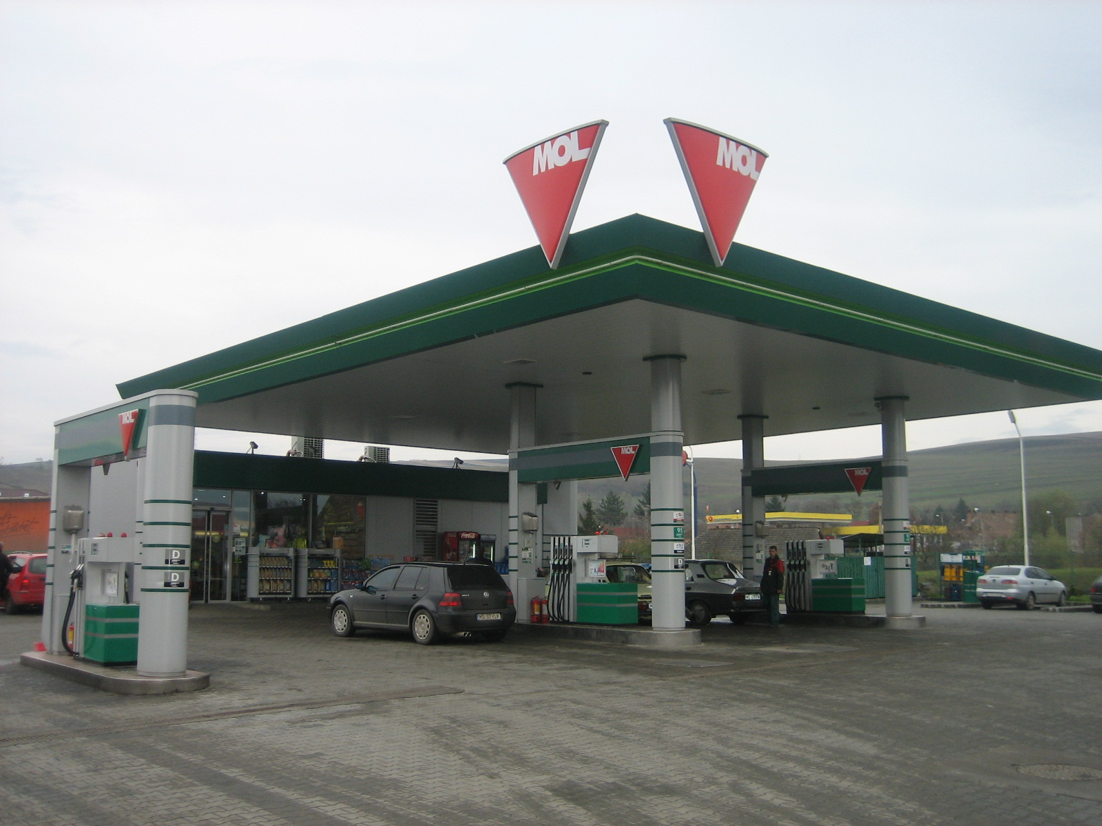 MOL petrol station in Luduş, Transylvania.